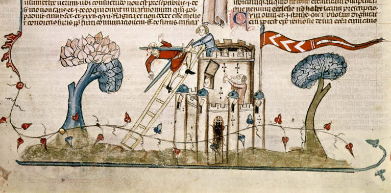 (Detail) Bas-de-page scene of a man falling from a ladder as he hit by a woman wielding a sword as he attacks a castle. Title of Work: Smithfield Decretals [Decretals of Gregory IX] Author: Raymund of Peñafort, editor; Bernard of Parma, glossator Production: France?; 1300-1340 [text]. England (London?); circa 1340 [illumination] Language: Latin